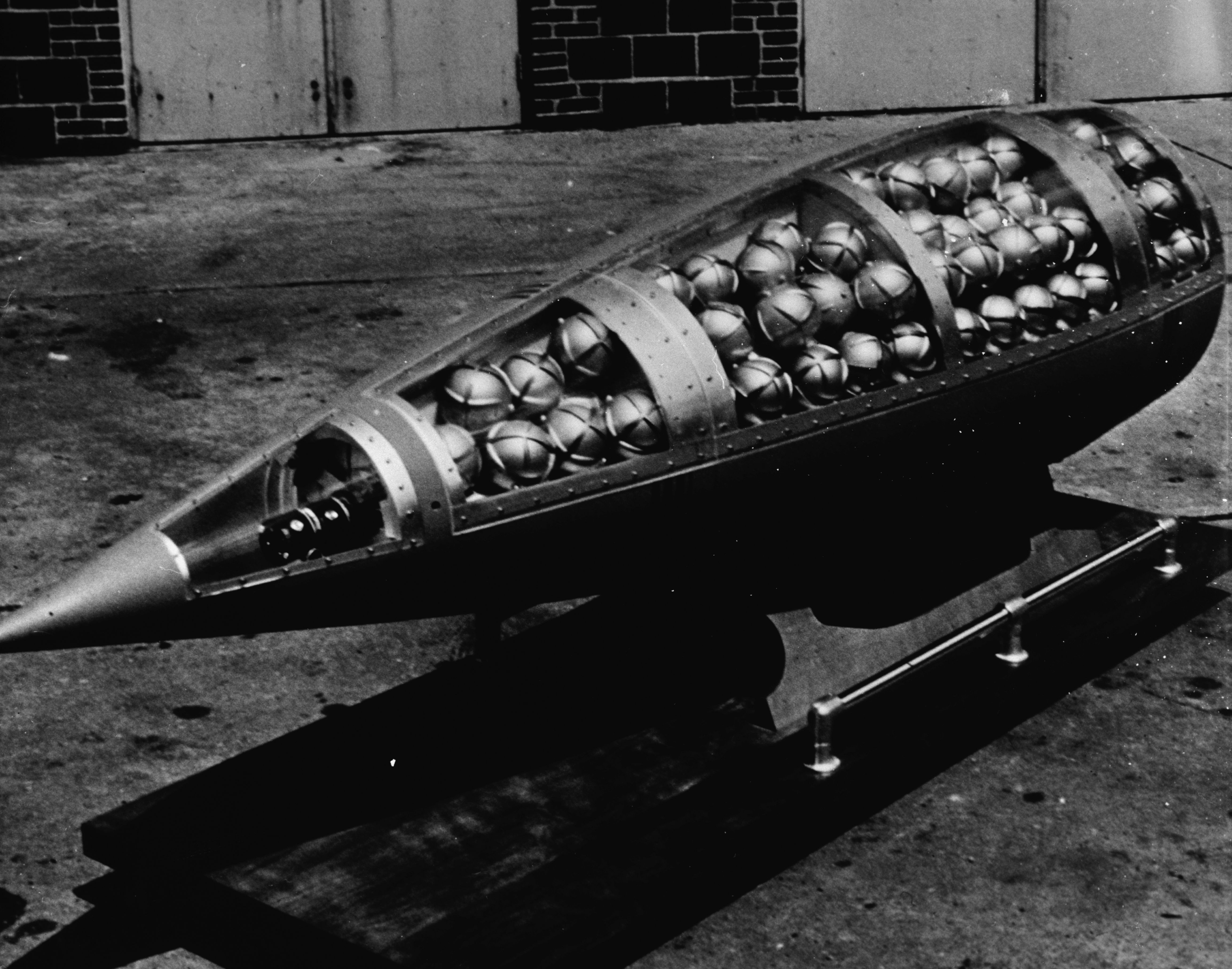 191. Photocopy of photograph, U.S. Army, ca. 1943 (original print located at Rocky Mountain Arsenal, Commerce City, Colorado). DEMONSTRATION CLUSTER BOMB, SHOWING BOMBLETS. HAER COLO,1-COMCI,1-191 Photo is of a M190 Honest John chemical warhead section containing demonstration M134 GB (Sarin) bomblets.